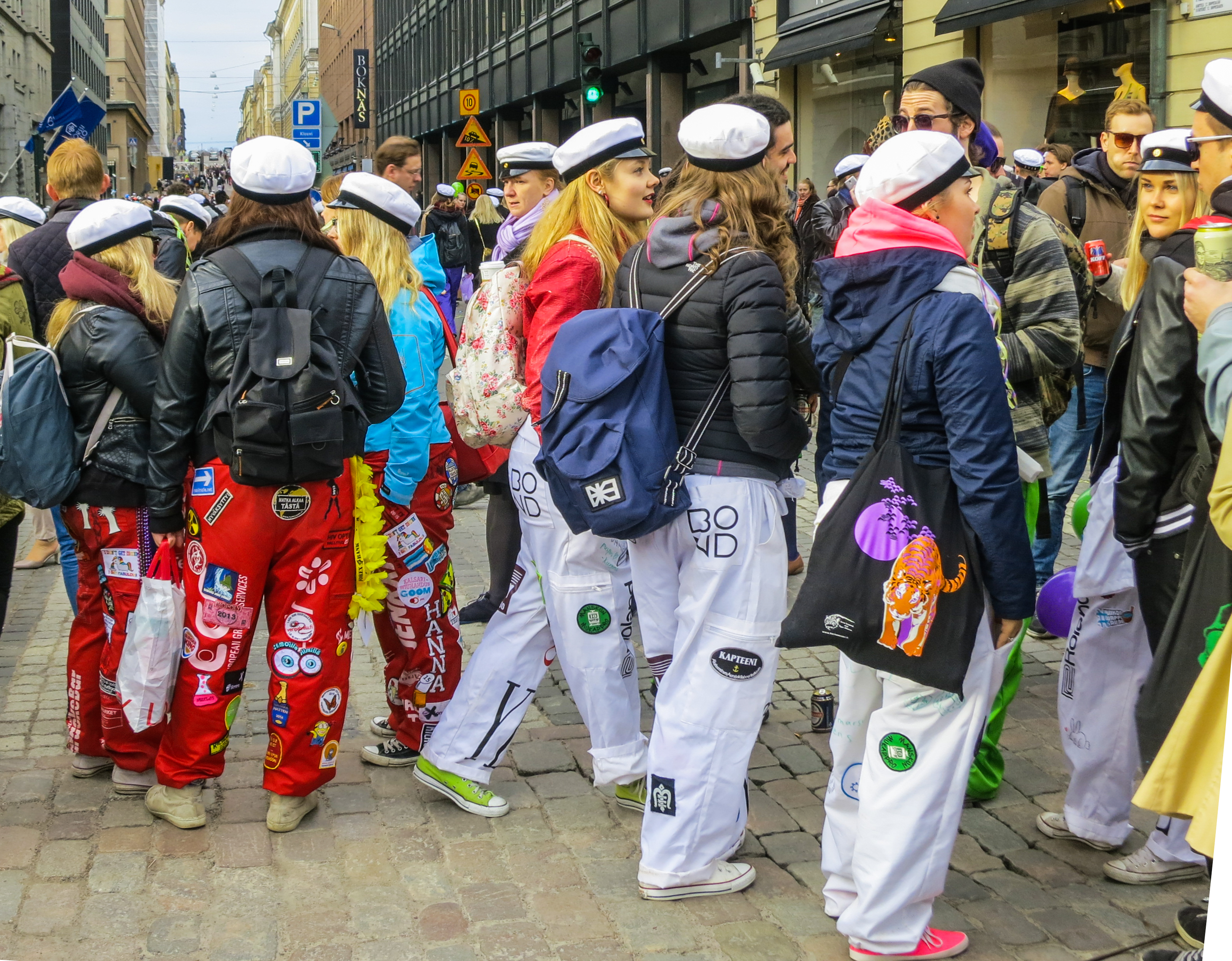 Student culture in Helsinki on the first of May